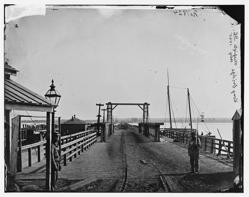 Washington, D.C. The Long Bridge over the Potomac seen from the city. Civil War photographs, 1861-1865 / compiled by Hirst D. Milhollen and Donald H. Mugridge, Washington, D.C. : Library of Congress, 1977. No. 0734 Title from Milhollen and Mugridge. Forms part of Selected Civil War photographs, 1861-1865 (Library of Congress)